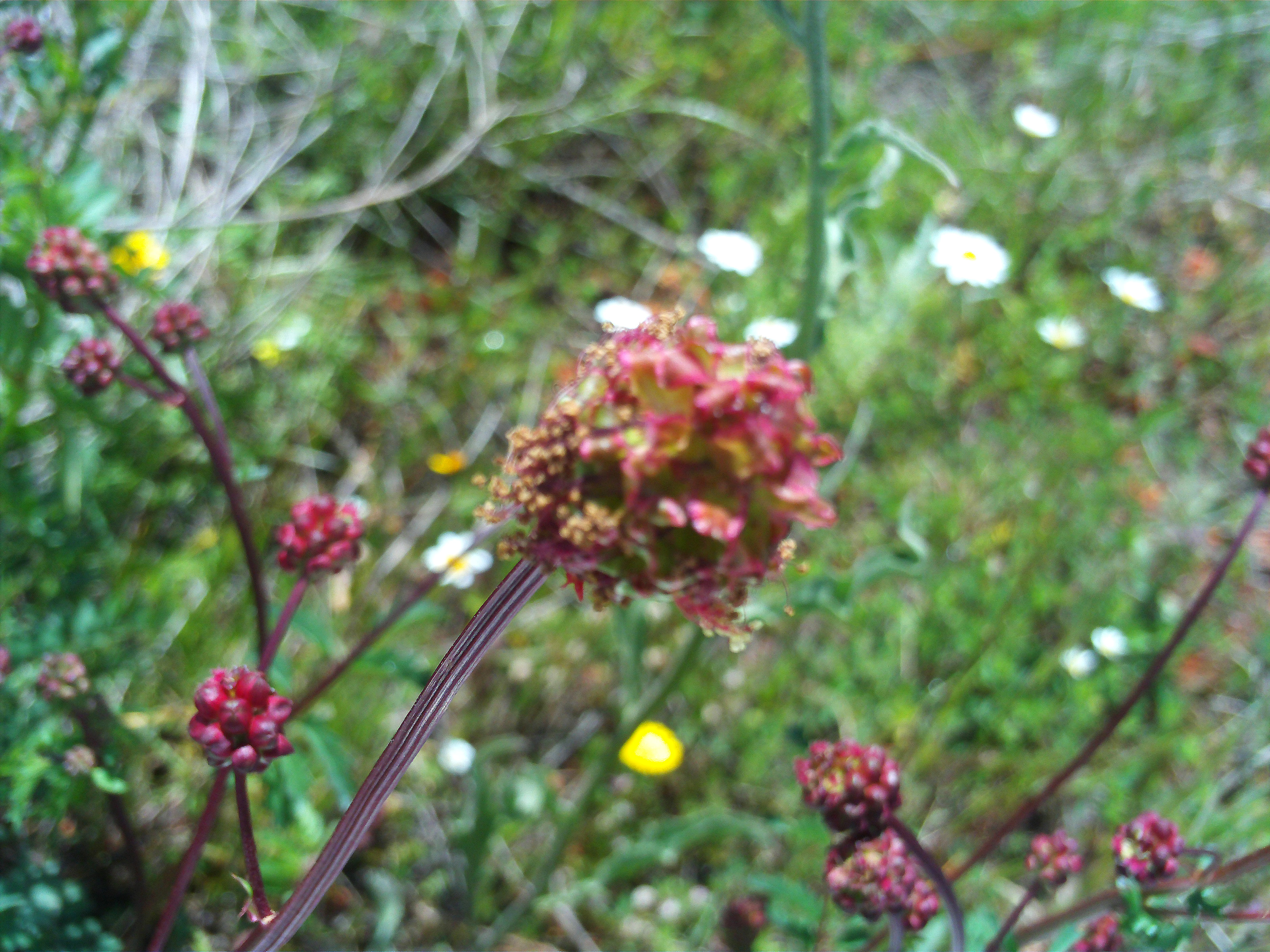 Sanguisorba verrucosa close up, Dehesa Boyal de Puertollano, Spain